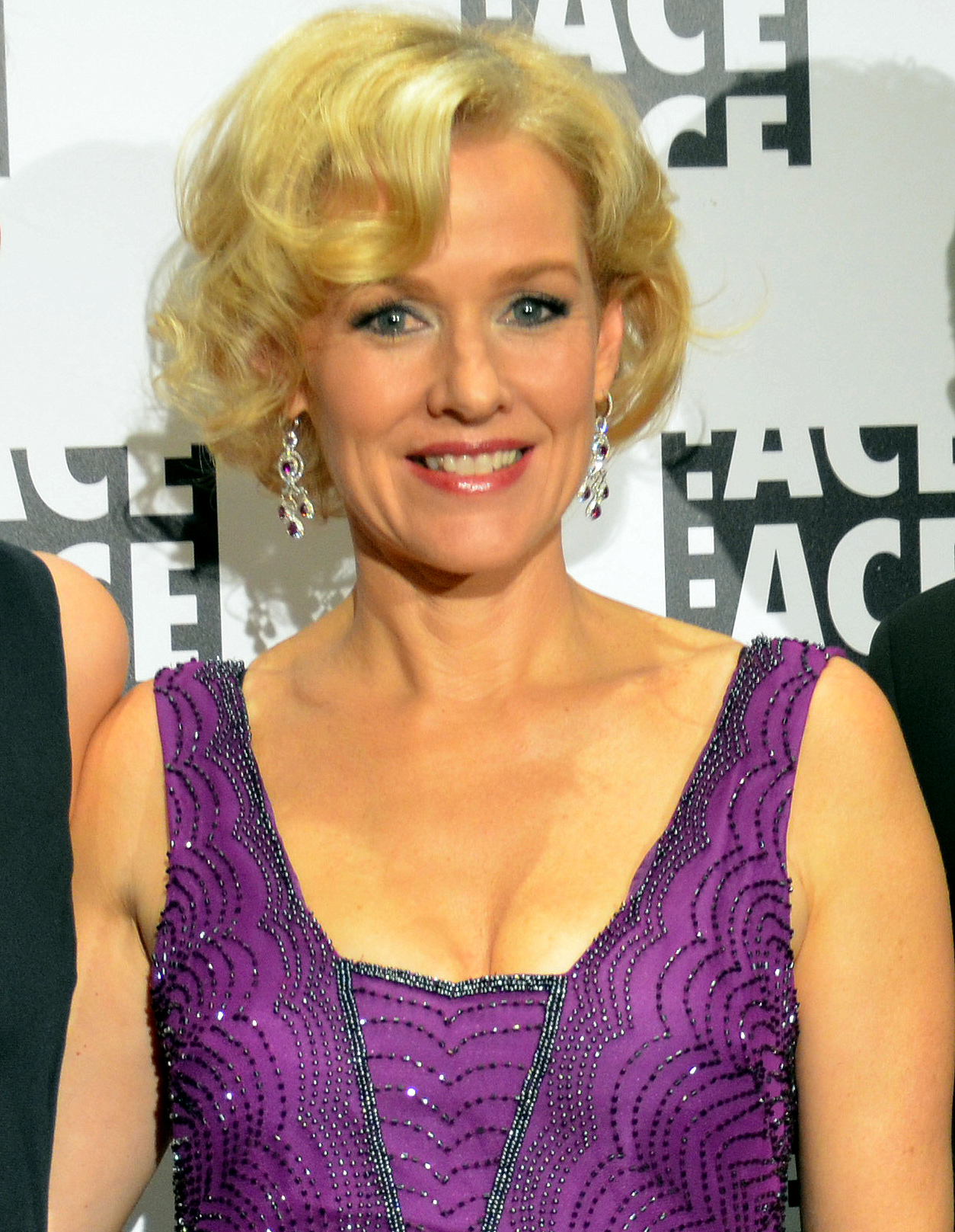 Actress Penelope Ann Miller at the ACE Eddie Awards 2012.